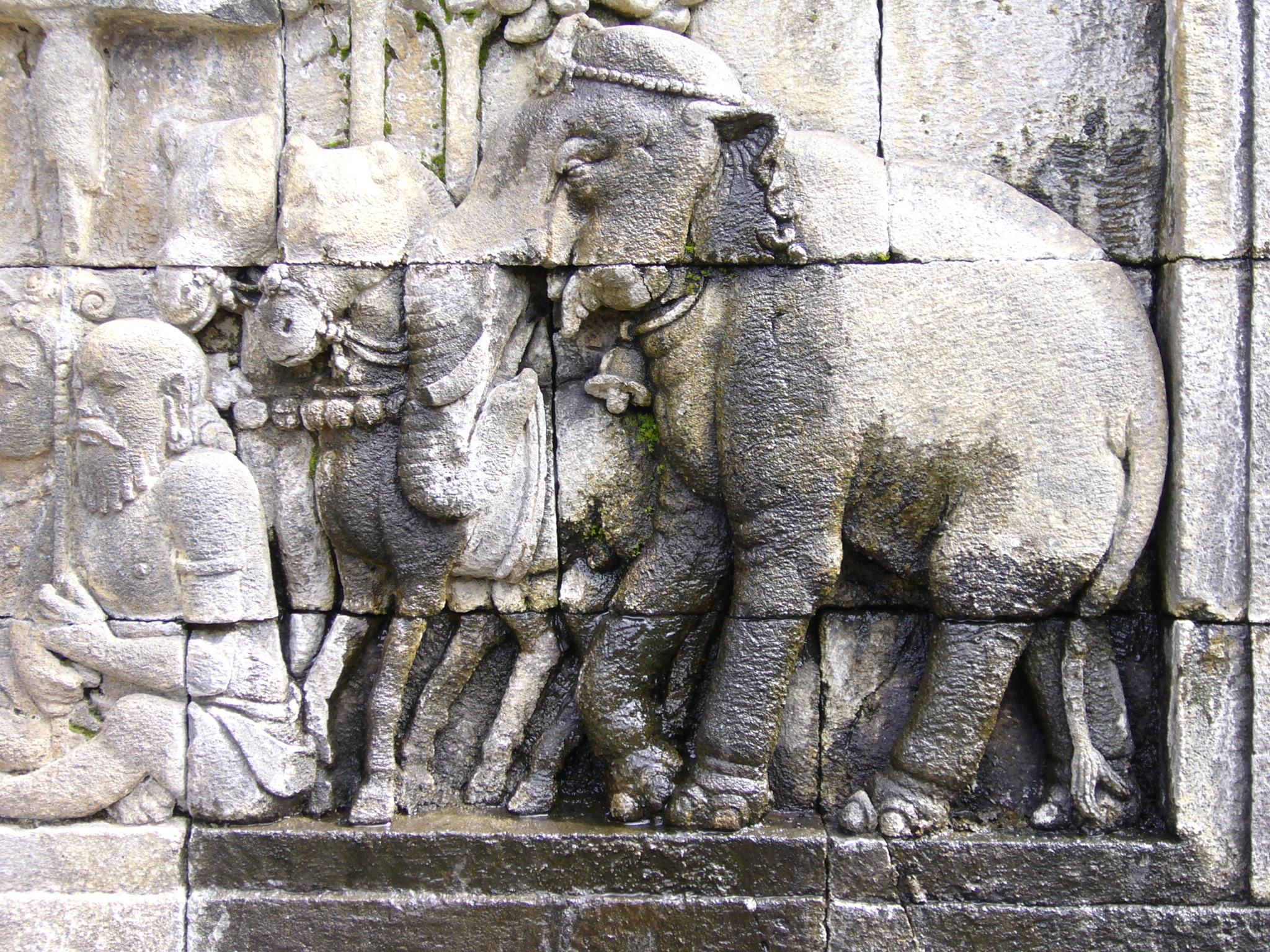 Borobudur Temple Compounds (Indonesia)